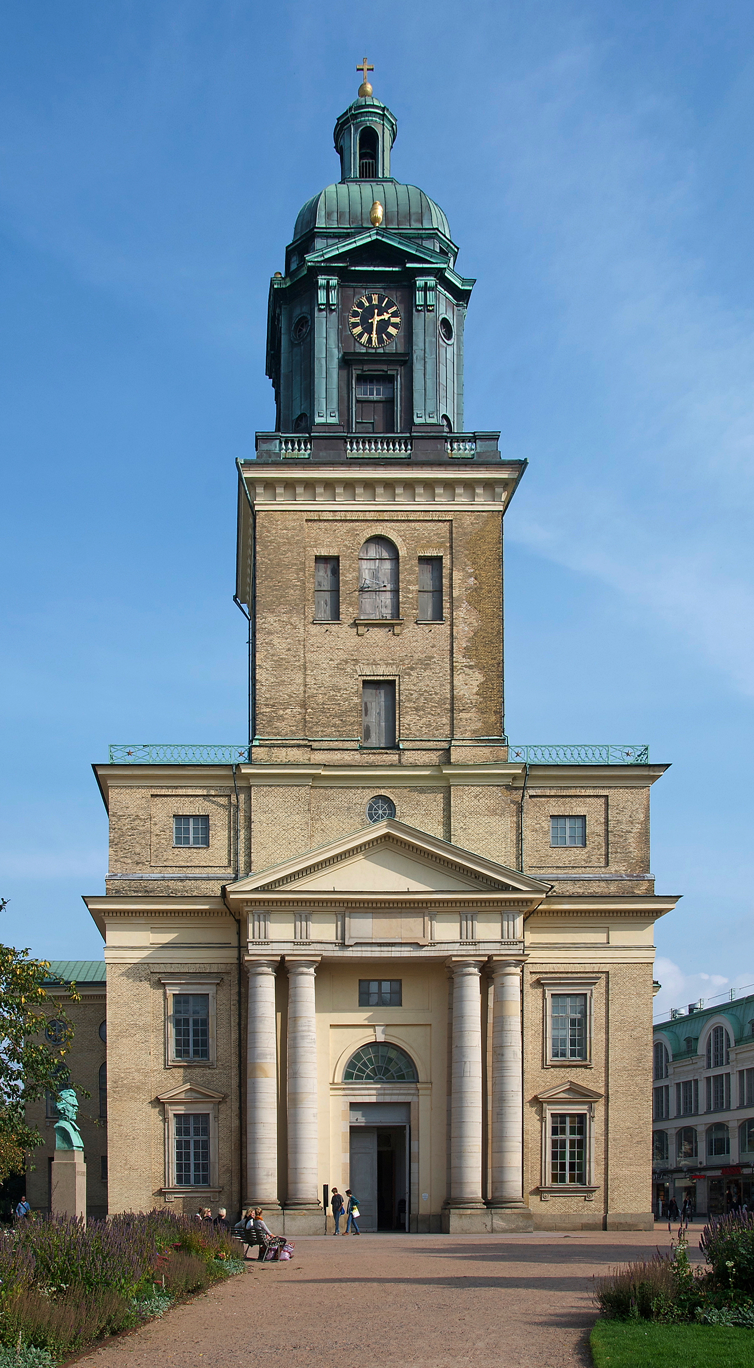 Göteborgs domkyrka (Gothenburg Cathedral), september 2011.